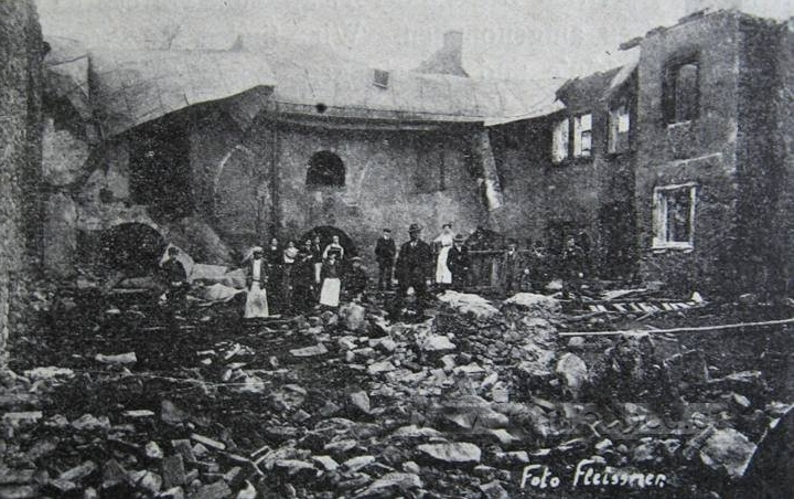 Old synagogue of Tachau (Tachov) destroyed by fire in 1911